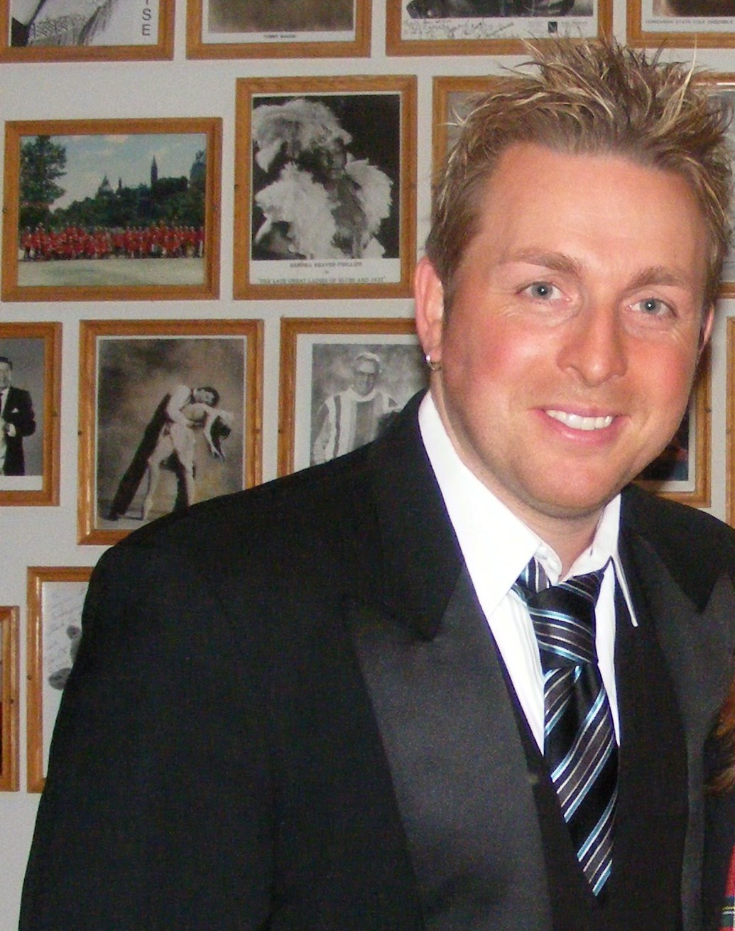 Johnny Reid, Canadian music singer